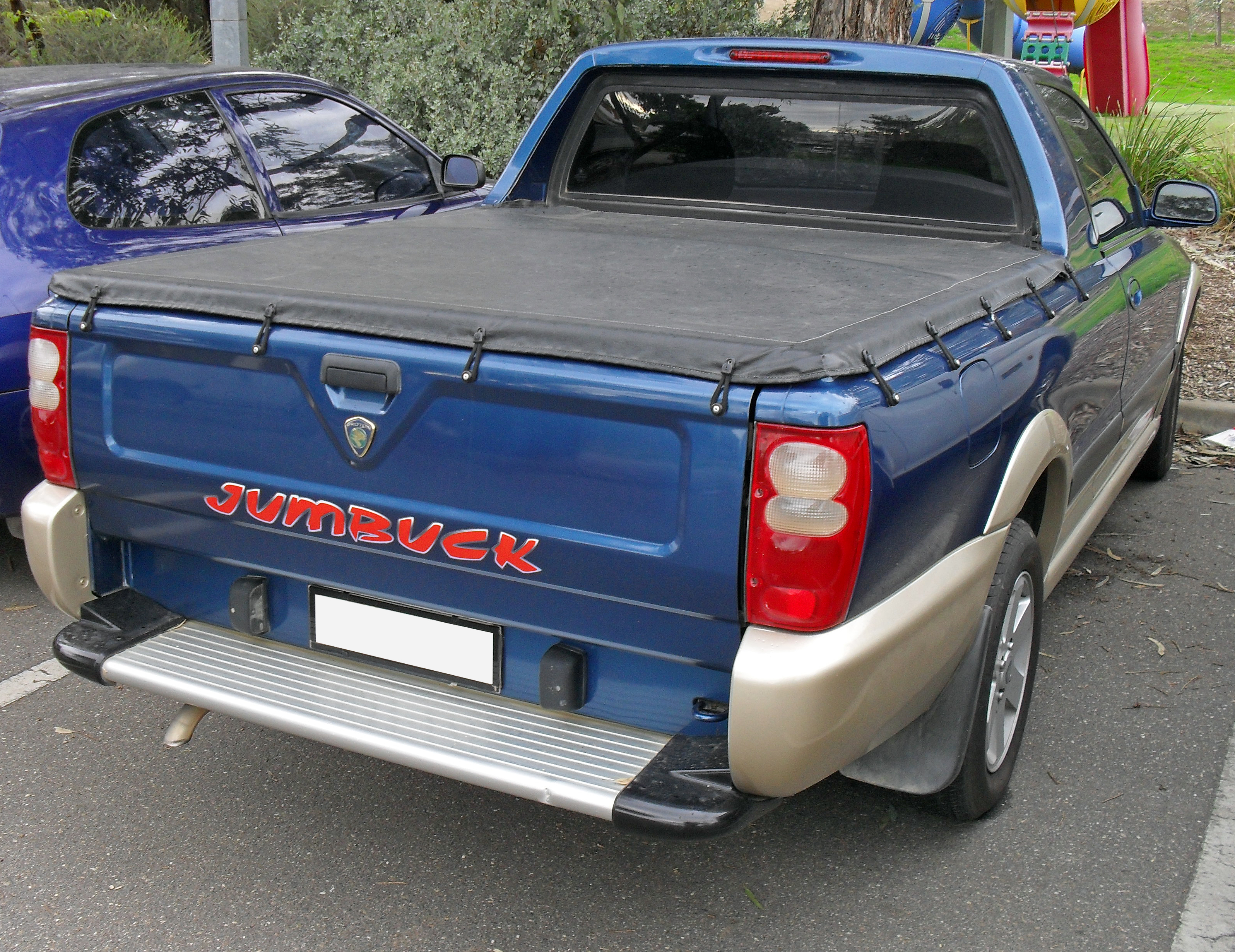 2003–2009 Proton Jumbuck (C90) GLSi utility, photographed in New South Wales, Australia.